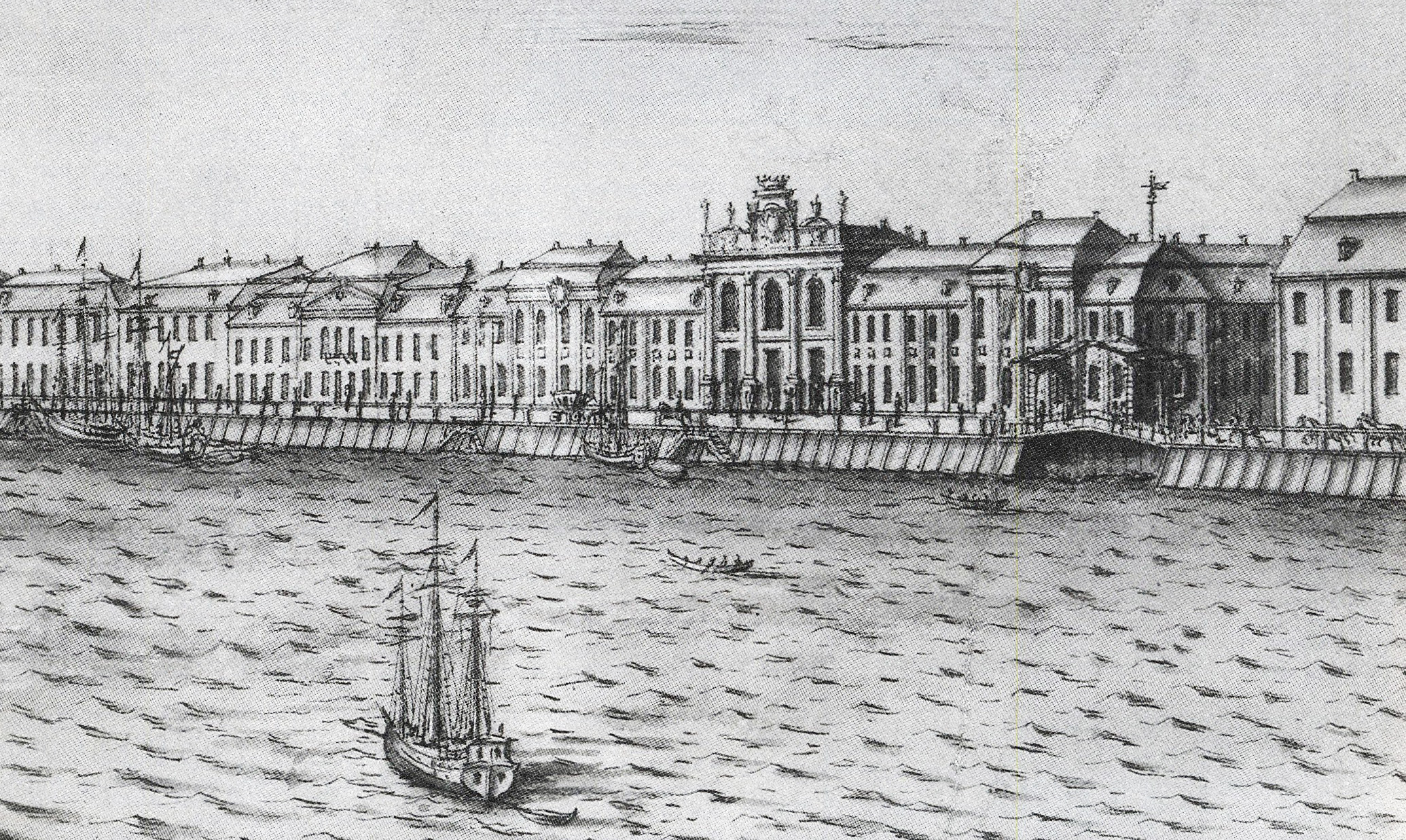 G. Mattarnovy. Peter I's Winter Palace in 1725. Fragment of the drowing by Marselius